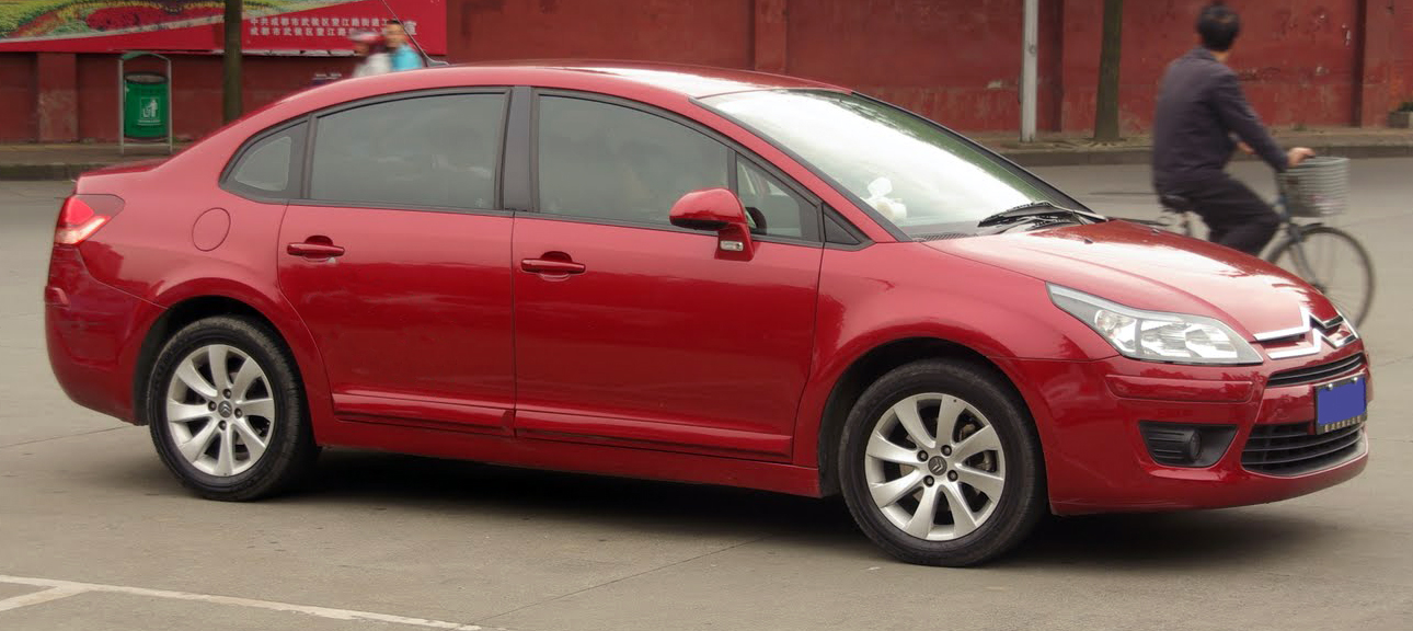 Chinese market Citroën C-Quatre, a C4 Sedan with a bigger trunk.